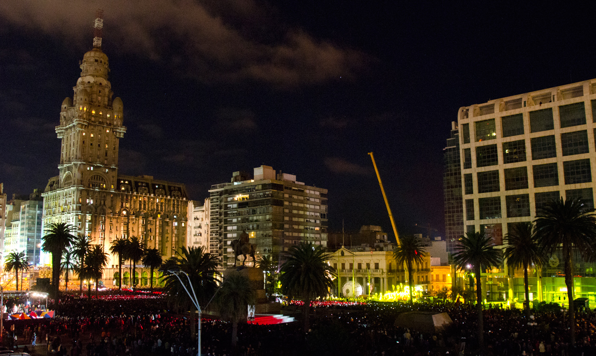 Plaza Independencia in Montevideo, Uruguay, during the Bicentennial. One of the four scenarios that were built in the city center.